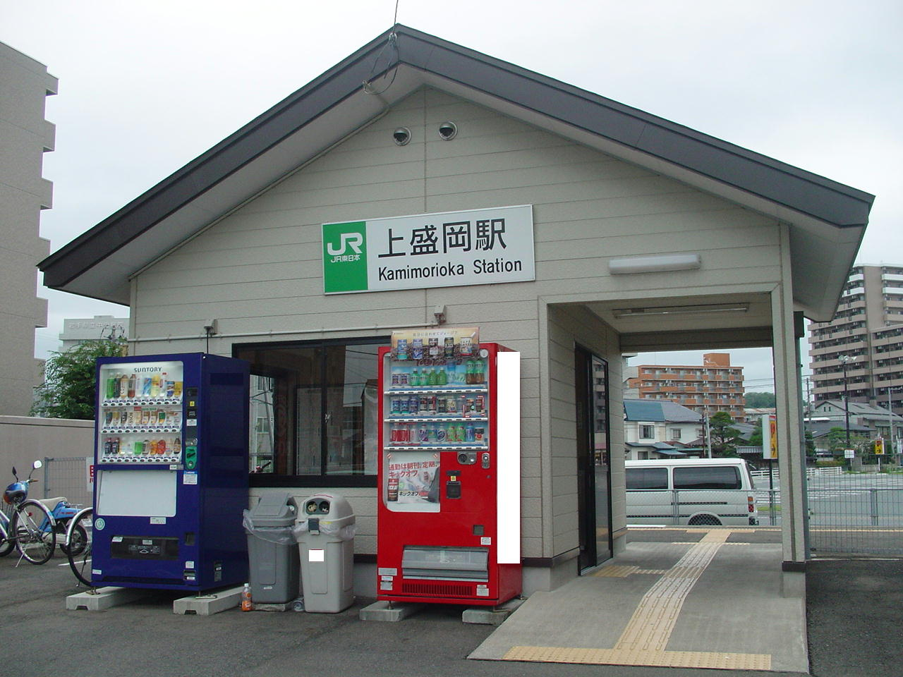 Kami-Morioka Station